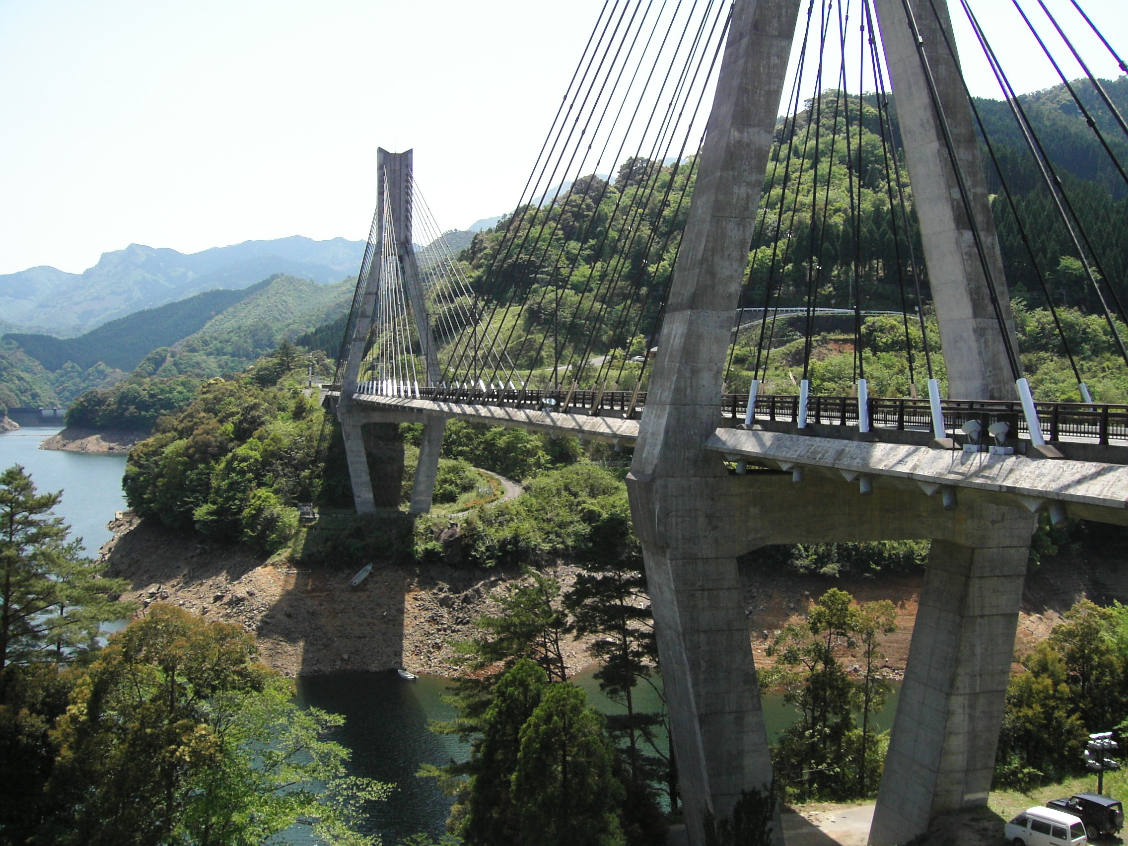 Utagenka Bridge in Ooita Prefecture, Japan. (大分県にある唄げんか大橋)